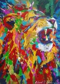 Roaring Lion By Richard T. Slone